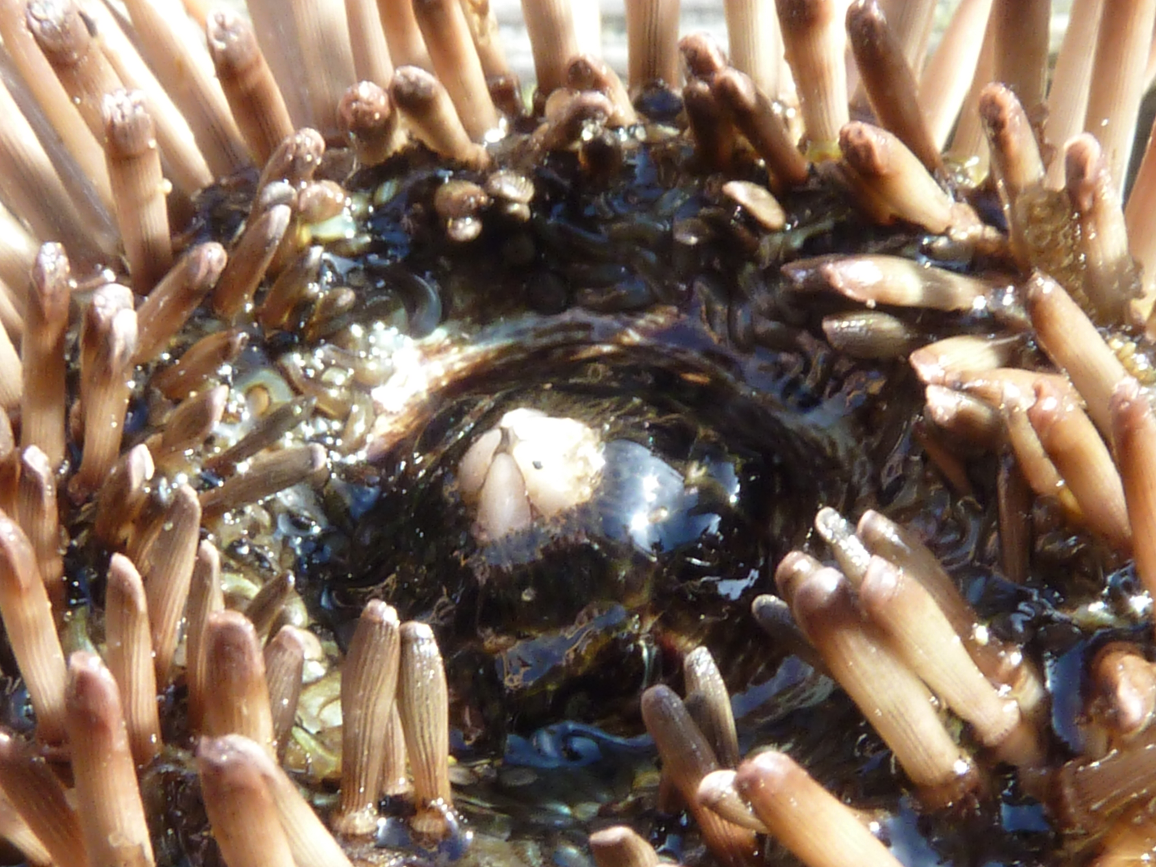 Peristome of Arbacia punctulata. Spines near peristome are flattened with flattened, rounded tips. In trawl, RV Gemma, off Woods Hole, at TDWG 2010 p1000119